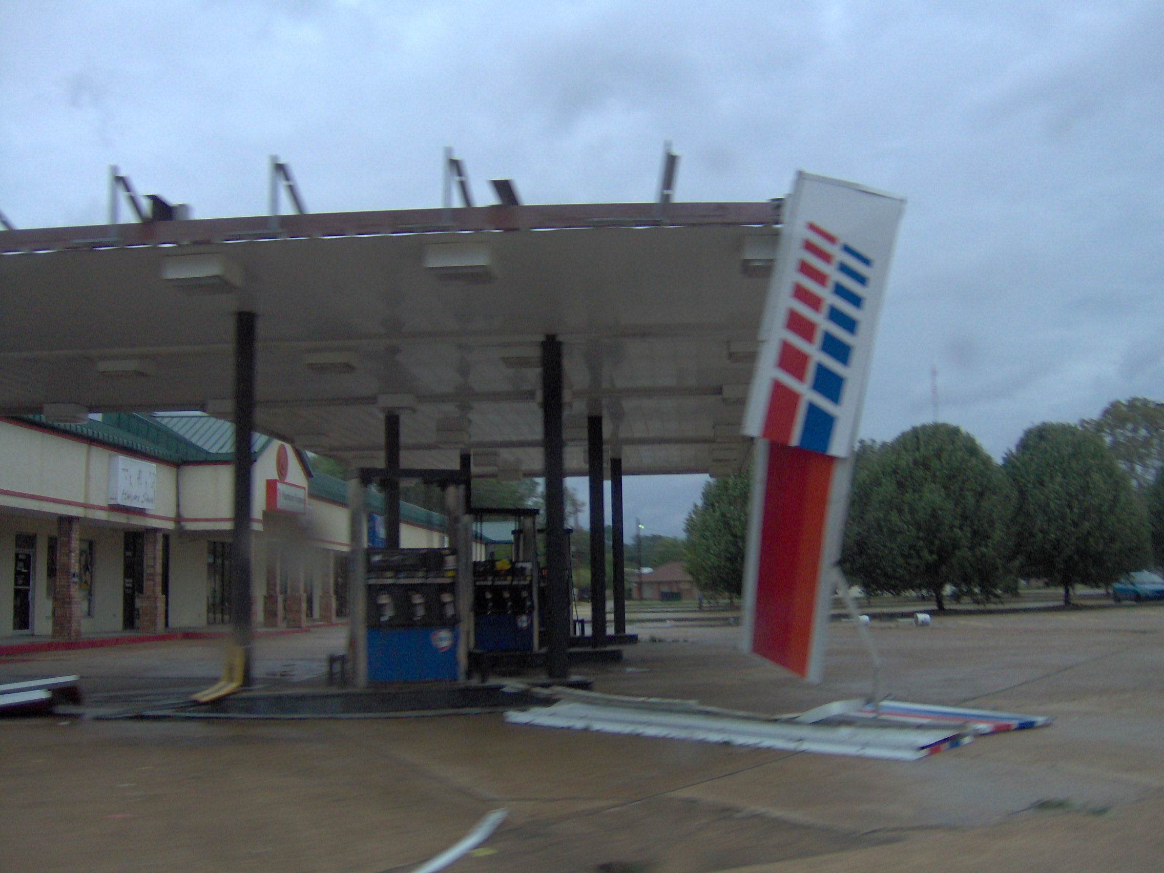 Damaged gas station after Hurricane Rita, Alexandria, Louisiana after Hurricane Rita.